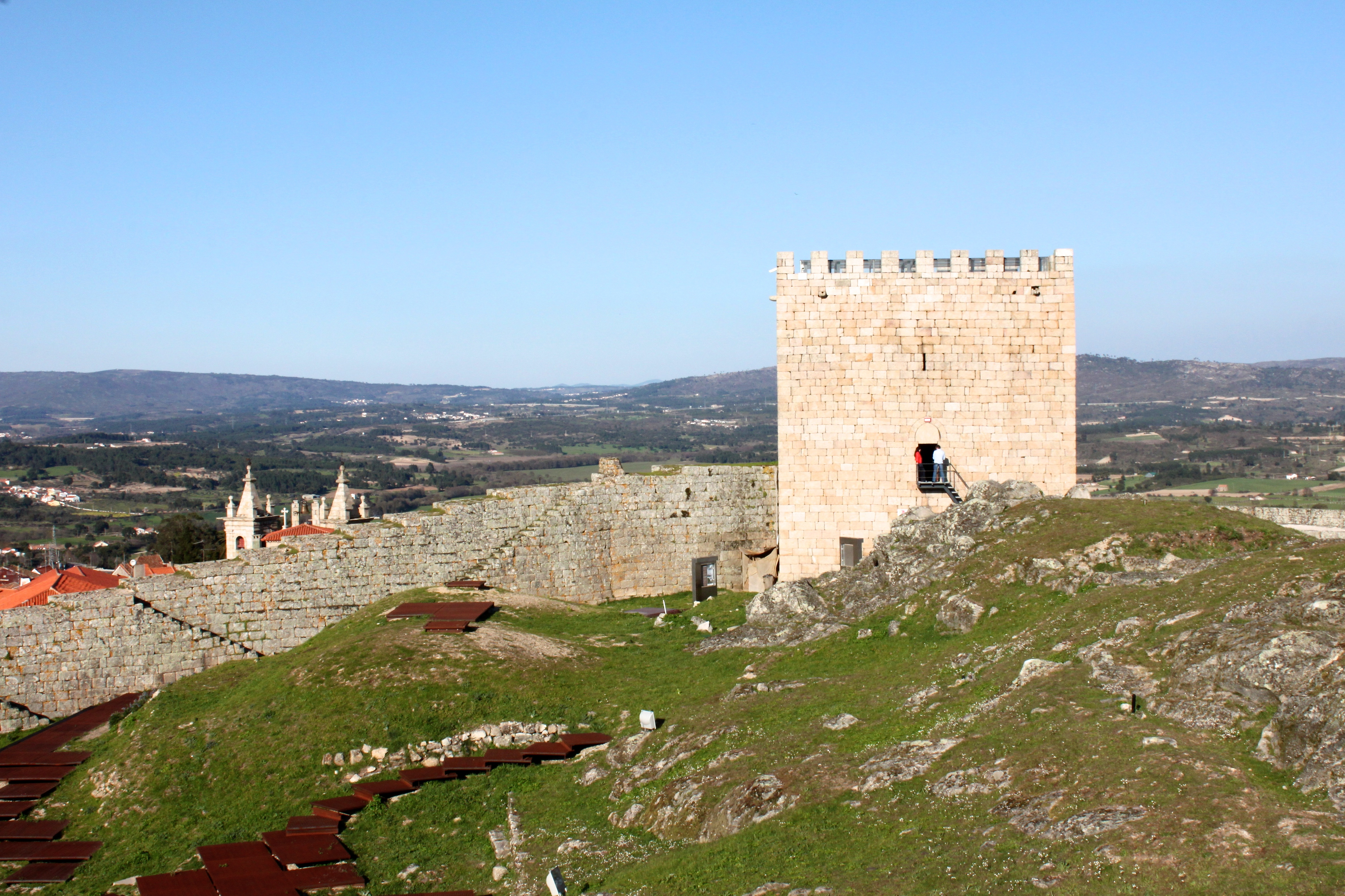 This file was uploaded for Wiki Loves Monuments in Portugal with the unique identifier 70710.